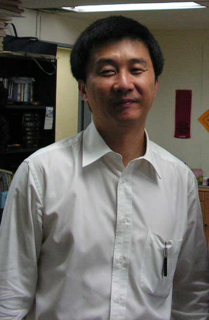 Kang Chol-hwan, defector from North Korea, former prisoner of Yodok concentration camp